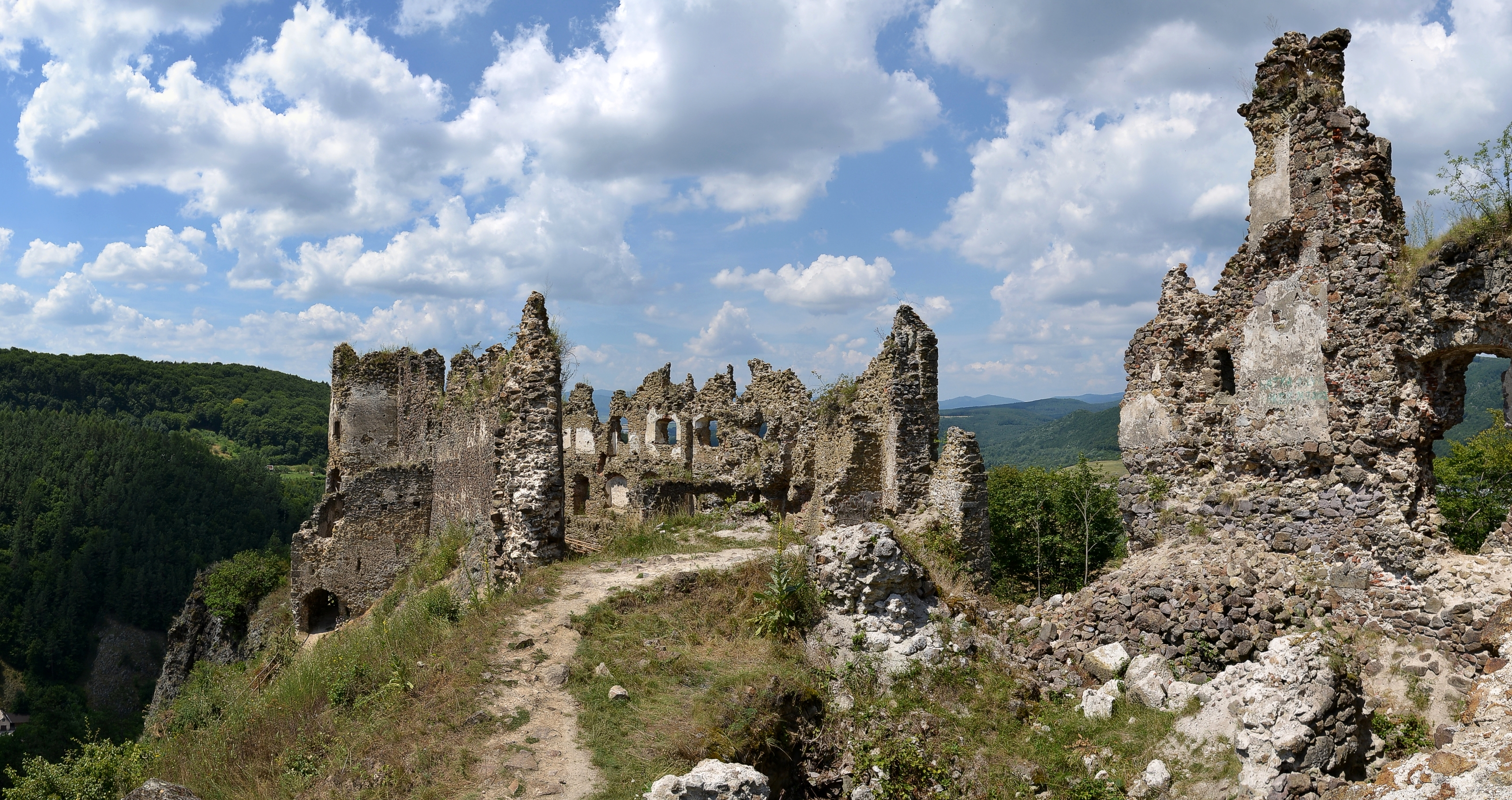 Ruins of castle in Šášovské Podhradie, Slovakia